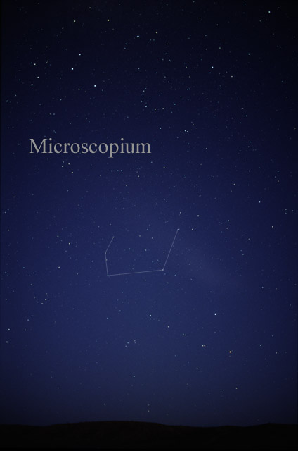 Photography of the constellation Microscopium, the microscope